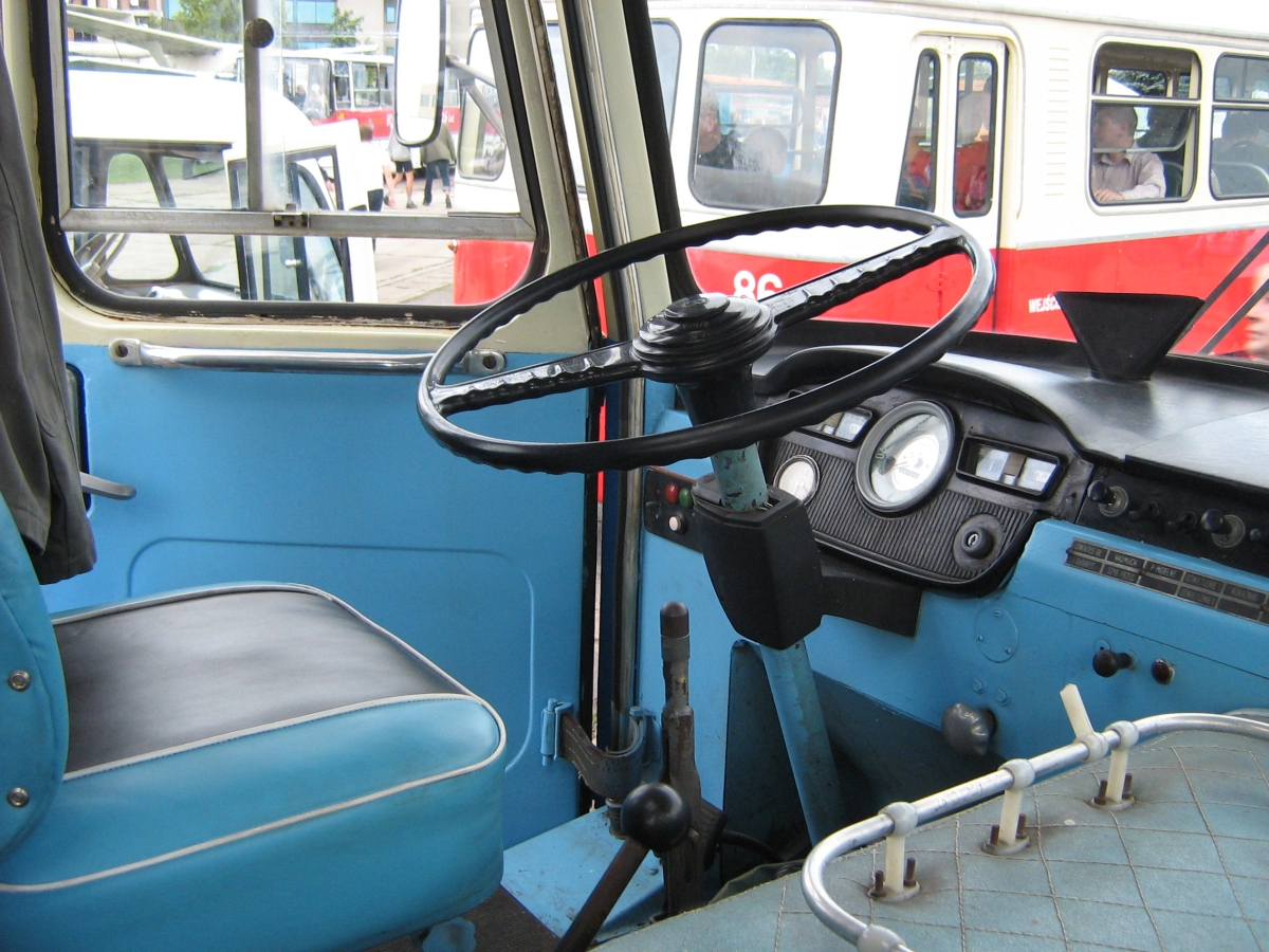 San H100A old bus (#8082) in Poland. Built 1972, belongs to KMKM Warszawa.